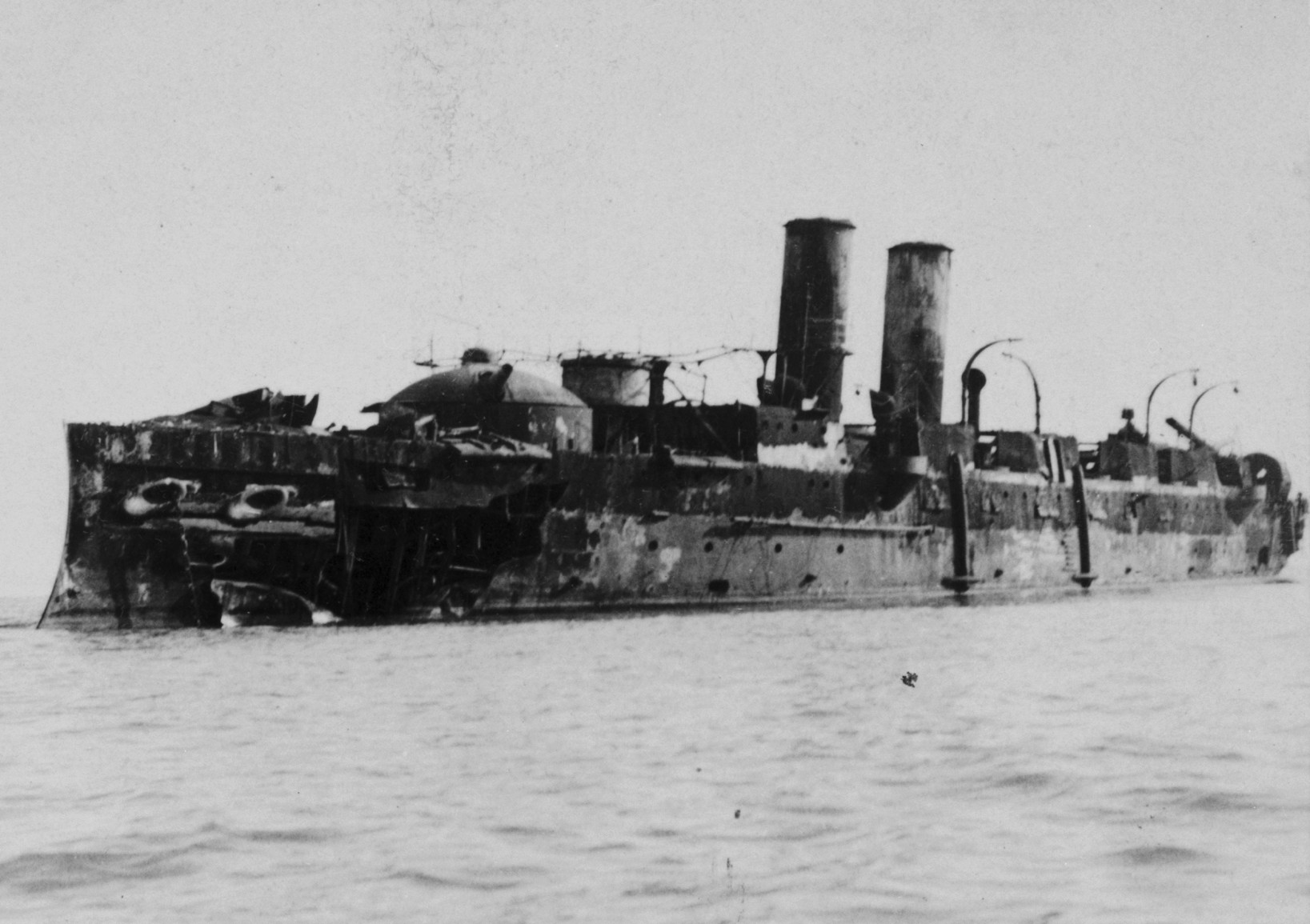 The wreck of the Spanish cruiser Vizcaya off Cuba, circa 1899. She took part in the Battle of Santiago de Cuba, fought between Spain and the United States on 3 July 1898.